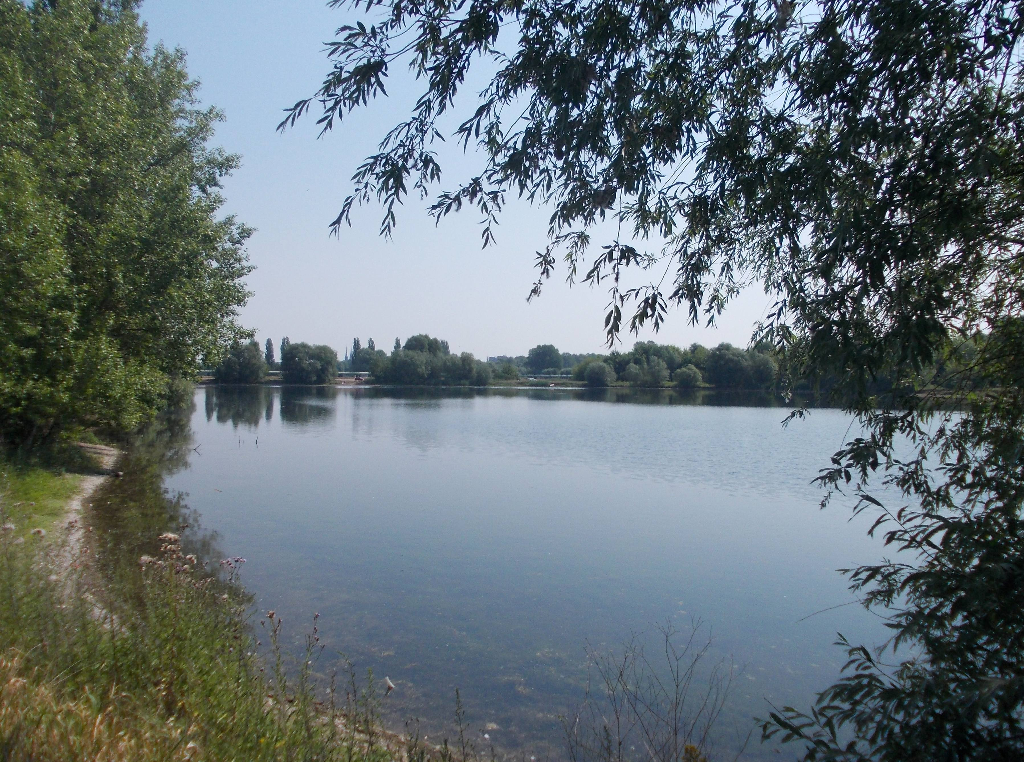 Gravel pit in the Saale meadows in Halle/Saale (Saxony-Anhalt)